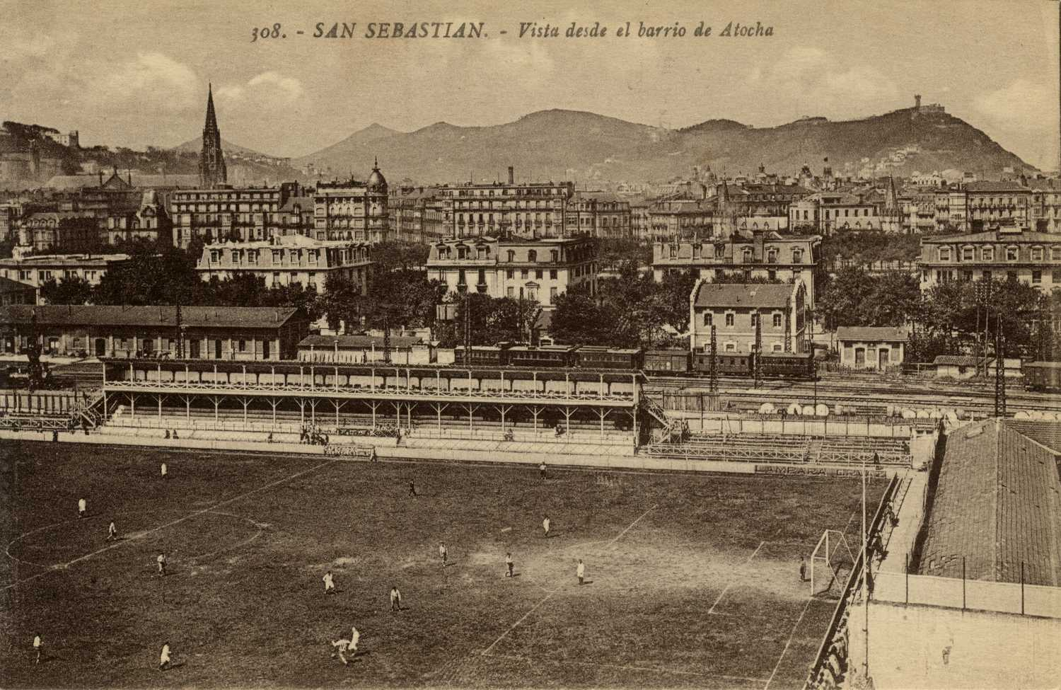 Atotxa Stadium. Donostia, Gipuzkoa. Basque Country.